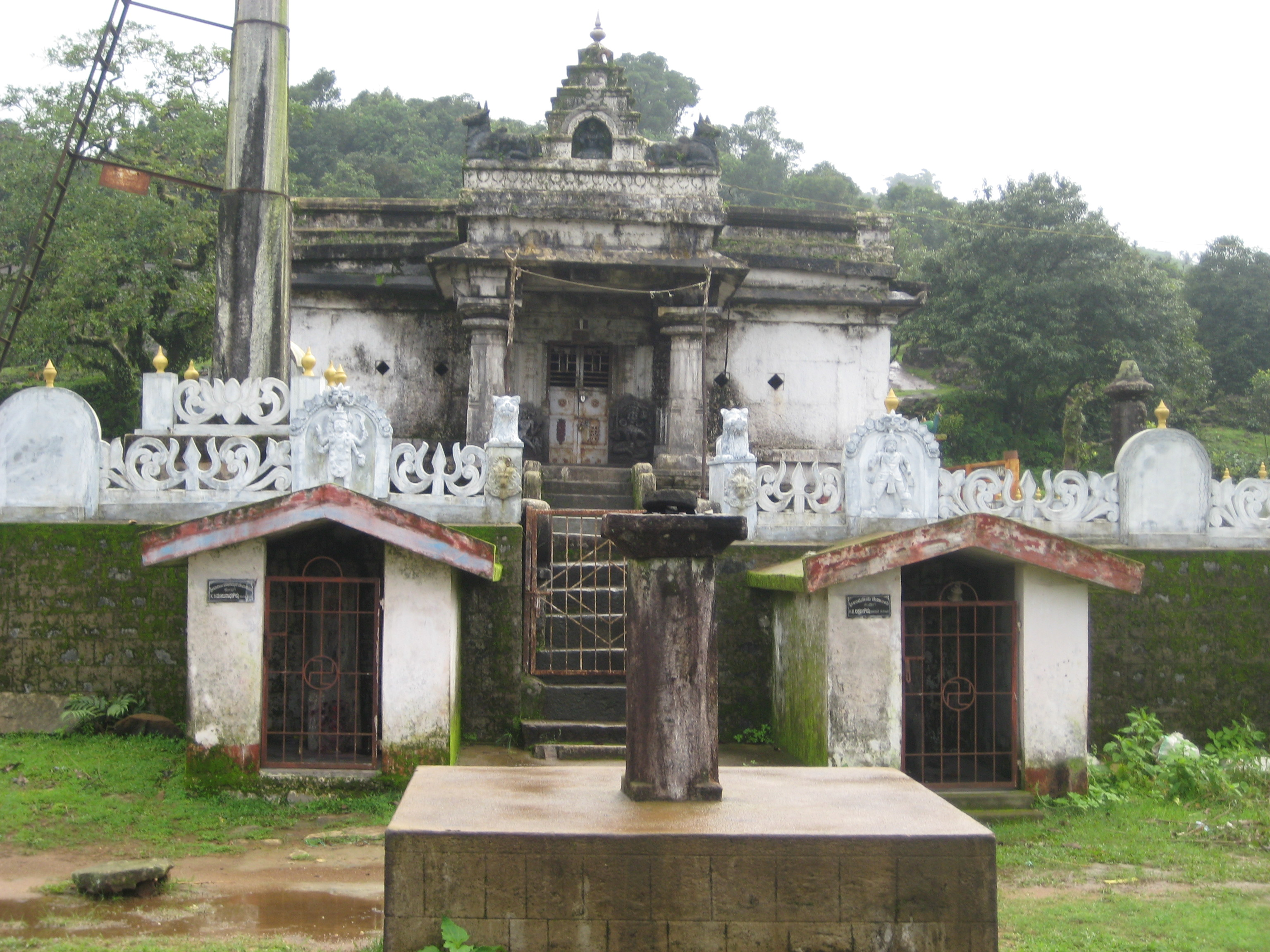 A front view of devaramane sri kalabhairava temple, guthi,devaramane kn and en wiki article has the common photo, taken on July 5, 2011